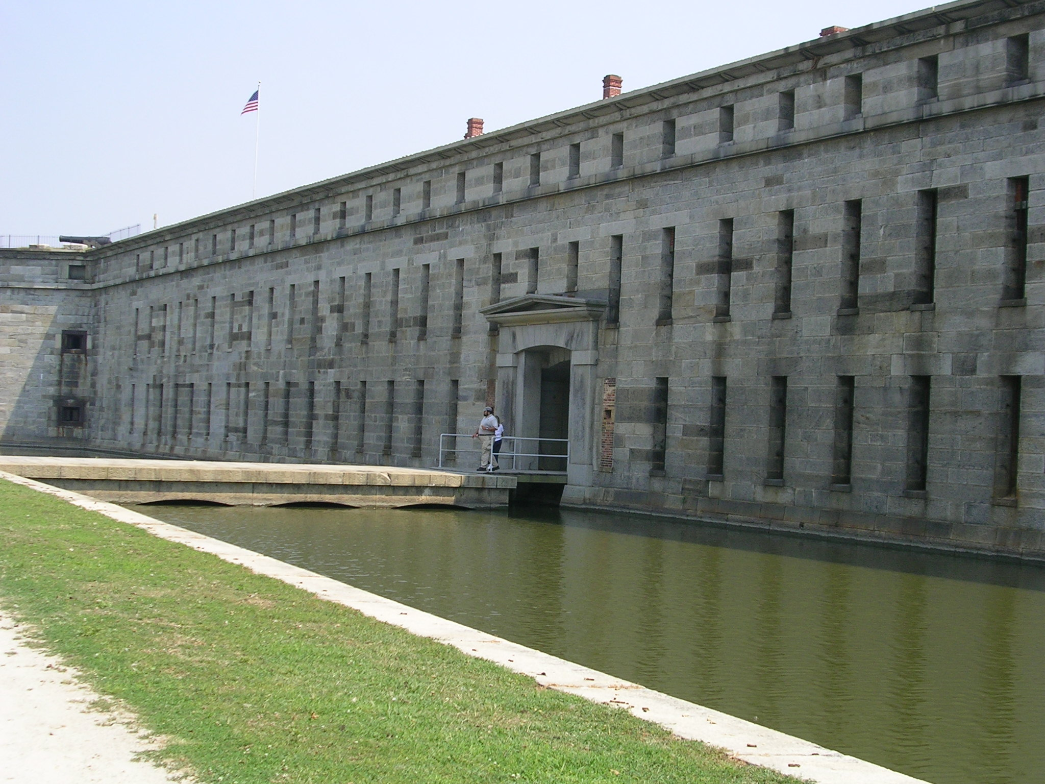 Fort Delaware Photo by: User:Der Sporkmeister